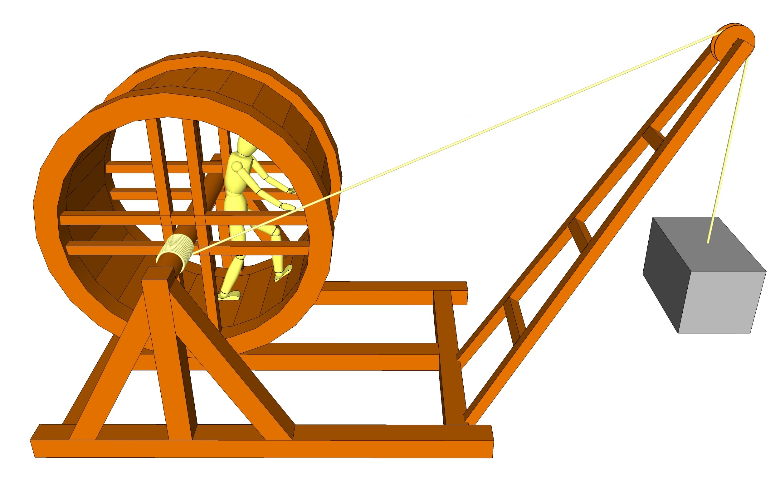 Medieval crane